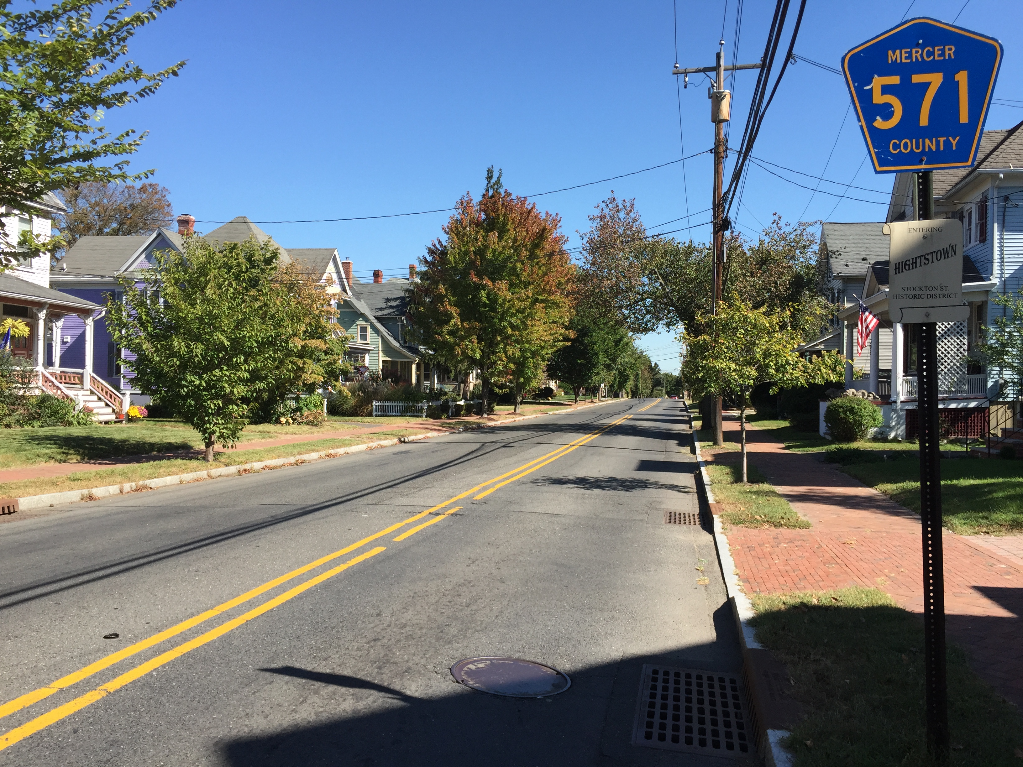 View east along Stockton Street (Mercer County Route 571) between Summit Street and Center Street in Hightstown Borough, Mercer County, New Jersey